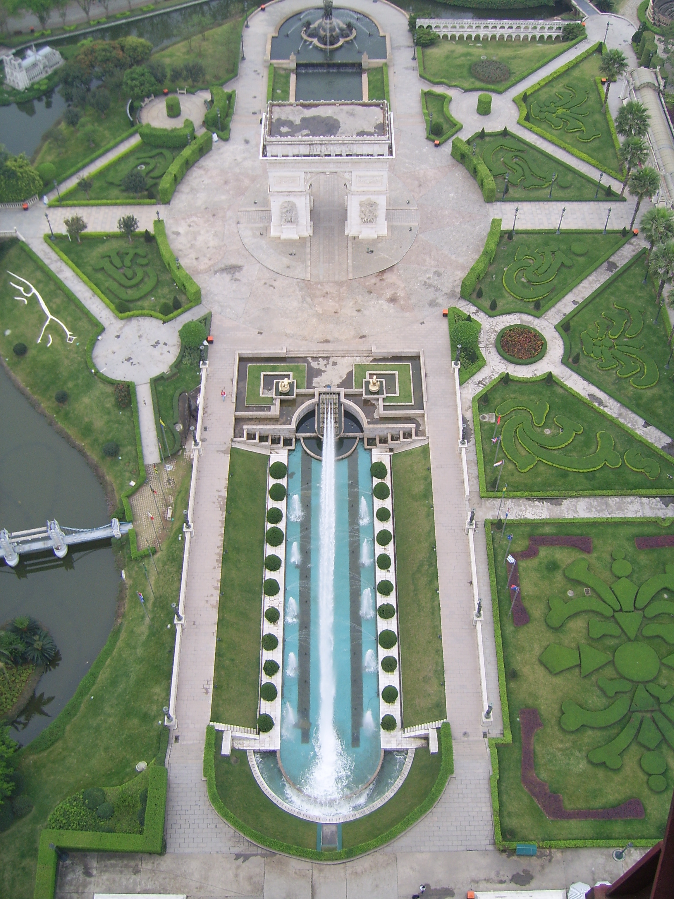 Shenzhen window of the world